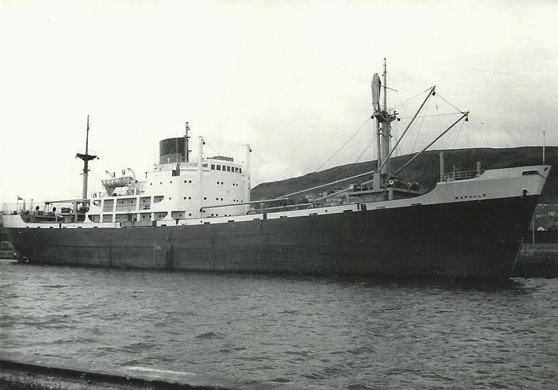 Ellerman Wilson cargo liner "Rapallo", 3,402 tons gross, built 1960, diesel engines, at Swansea Docks, 06/71. Scanned photograph taken with a Kowa SET camera.